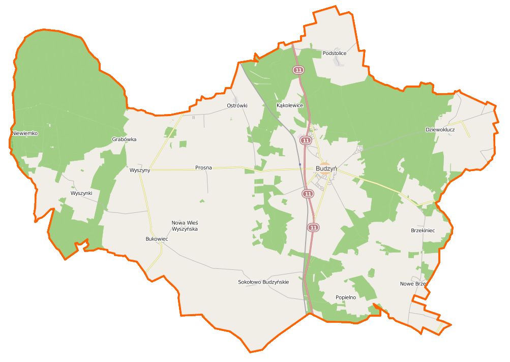 Map of Gmina Budzyń, Poland This map of Budzyń (gmina) was created from OpenStreetMap project data, collected by the community. This map may be incomplete, and may contain errors. Don't rely solely on it for navigation. Border coordinates52.959416.7645←↕→17.108852.8121